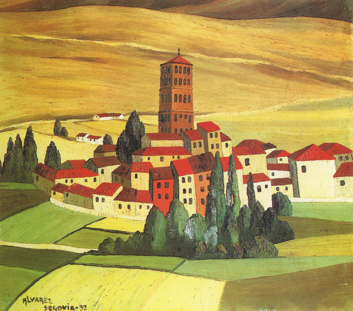 The Spanish town Segovia